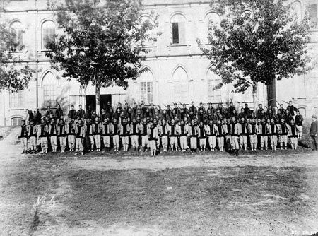 The Peiyang University at Tientsin, 1900's